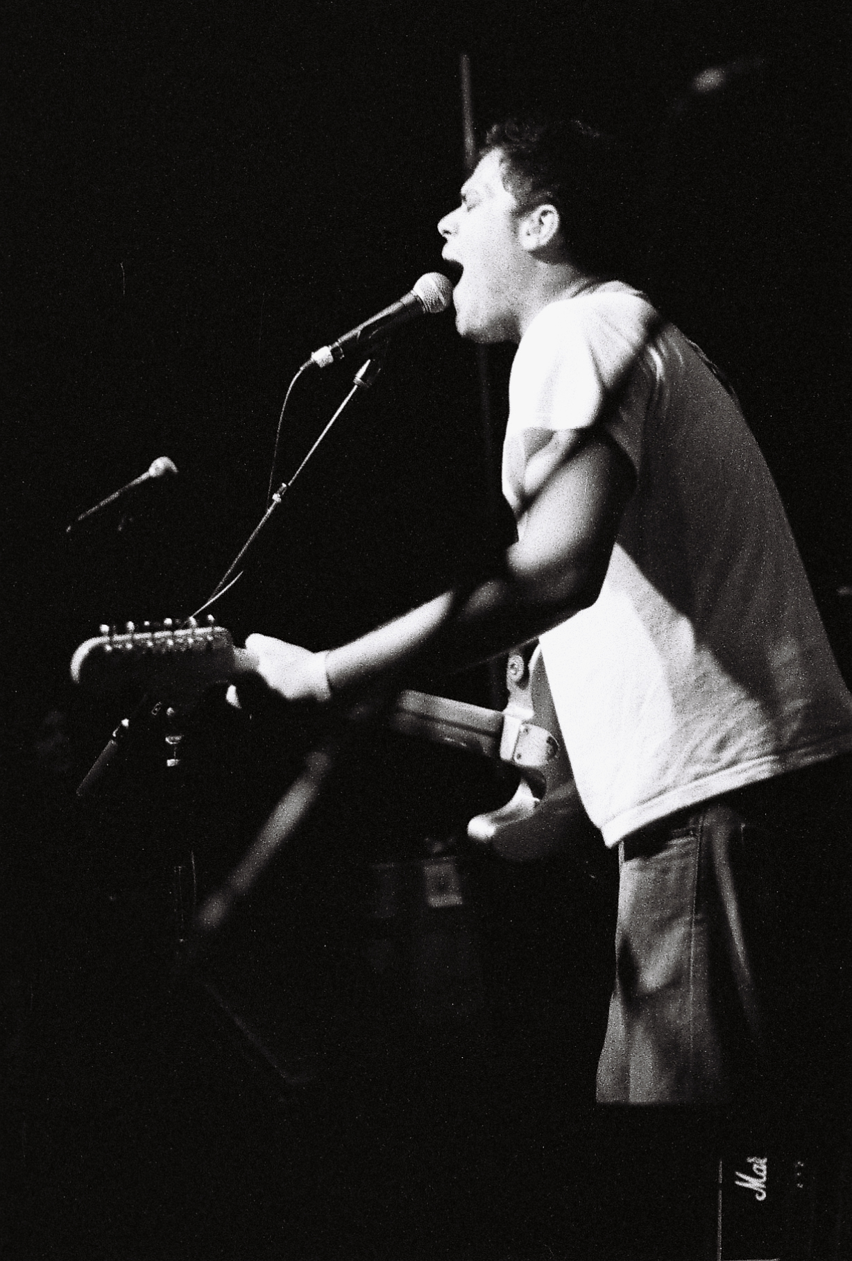 Jeff Rosenstock performing at the Triple Rock Social Club in Minneapolis on November 6, 2012.